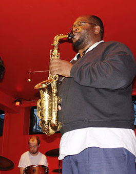 Darius Jones performing in Aarhus Denmark 2010